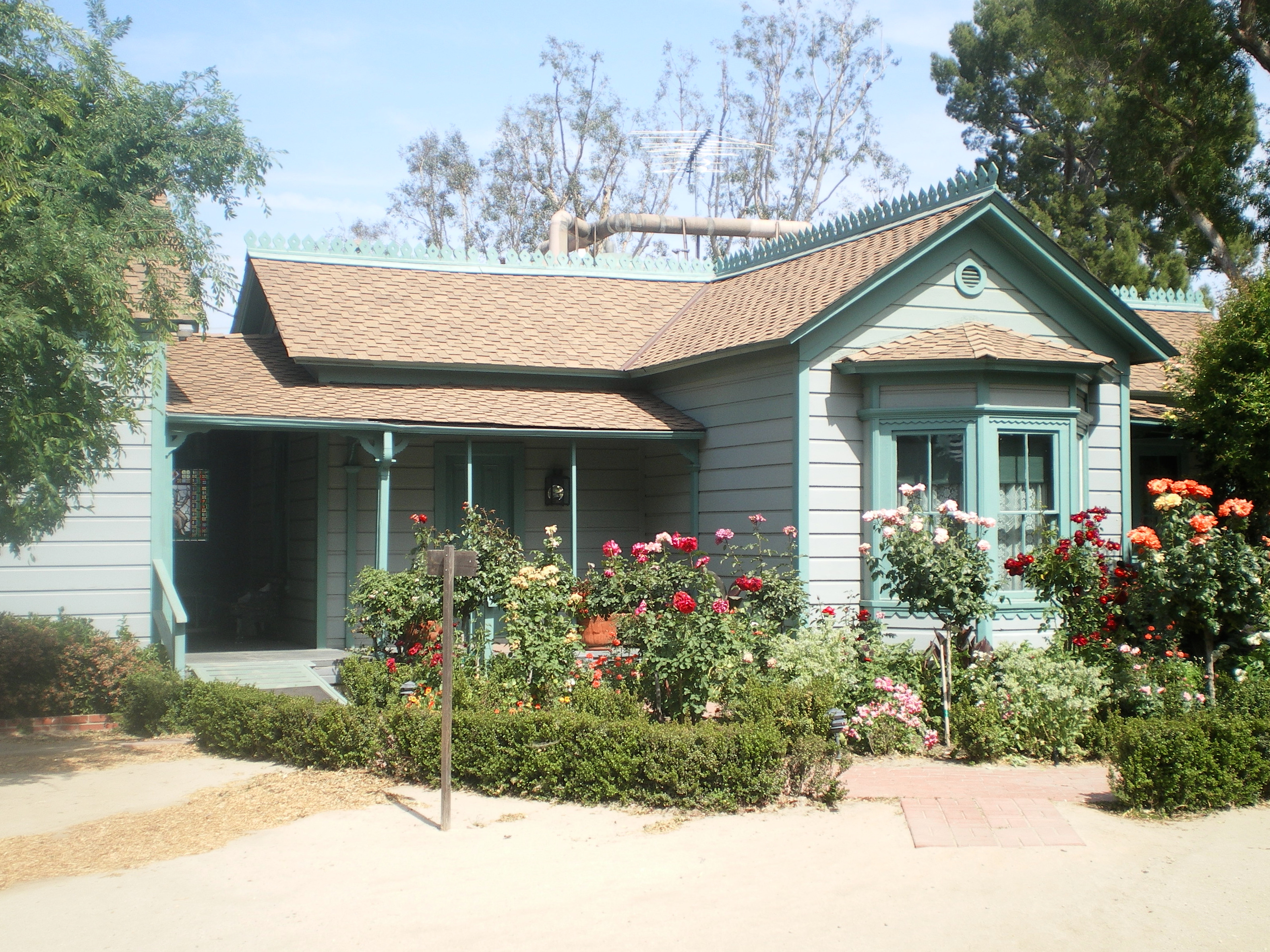 Plummer House, on grounds of Leonis Adobe Museum, Calabasas, California (2008)